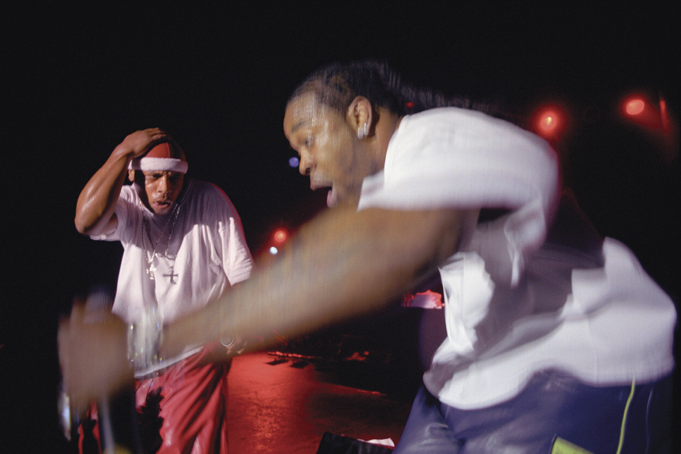 Hamburg/Germany 2002